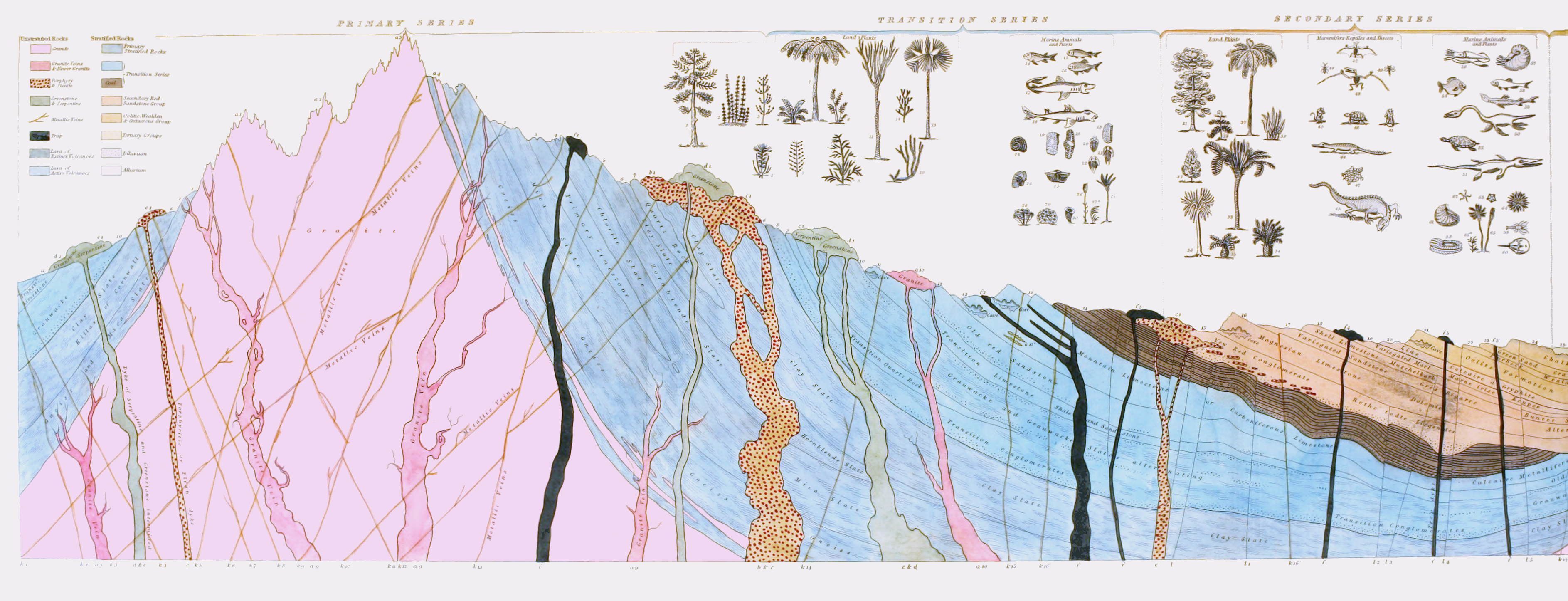 Geology and Mineralogy considered with reference to Natural Theology, 1837. Vol. 2.